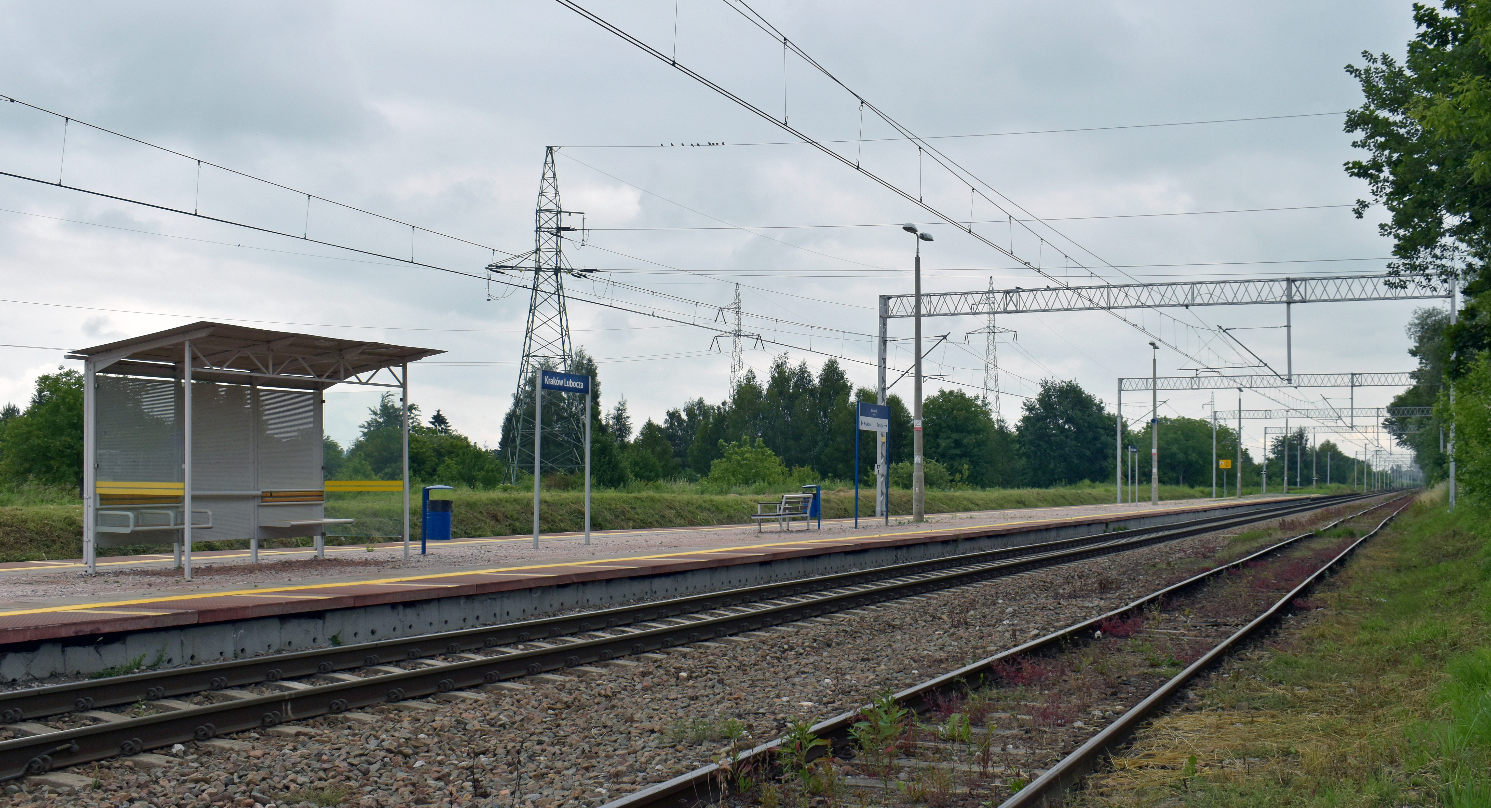 Kraków Lubocza railway stop, Blokowa street, Nowa Huta, Kraków, Poland